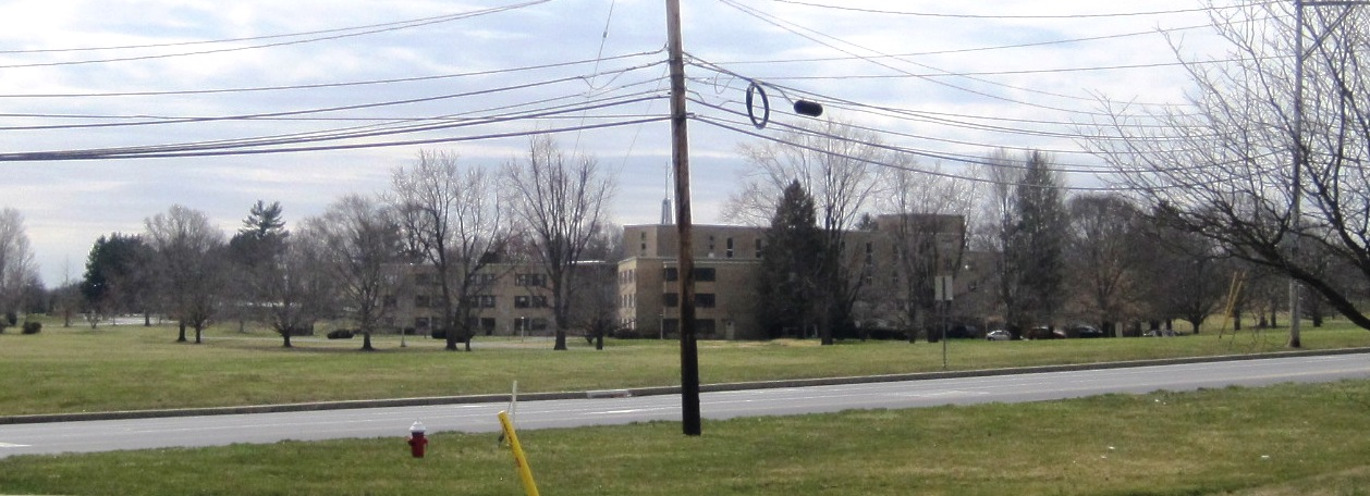 Photo of the Villa Joseph Marie High School in Northampton Township, Bucks County, Pennsylvania. Photo taken from southbound Holland Road at Upper Holland Road.